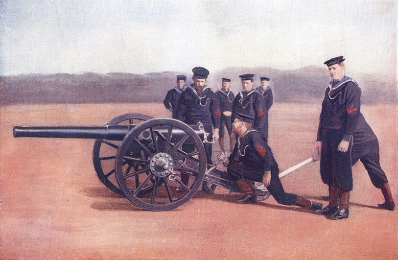 Colourised photograph showing QF 12 pounder 8 cwt landing gun of the Royal Navy with crew.